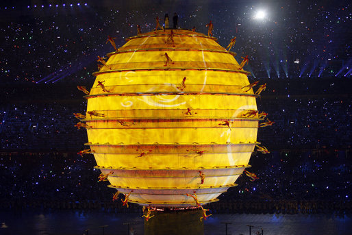 Performers dance on the surface of an illuminated sphere in the middle of National Stadium Friday, Aug. 8, 2008, during the Opening Ceremonies of the 2008 Summer Olympic Games in Beijing